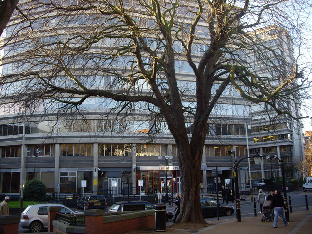 Leicester City Council Buildings, New Walk I can't seem to find out exactly when these were constructed but as to what one can get here... ...fill your boots!